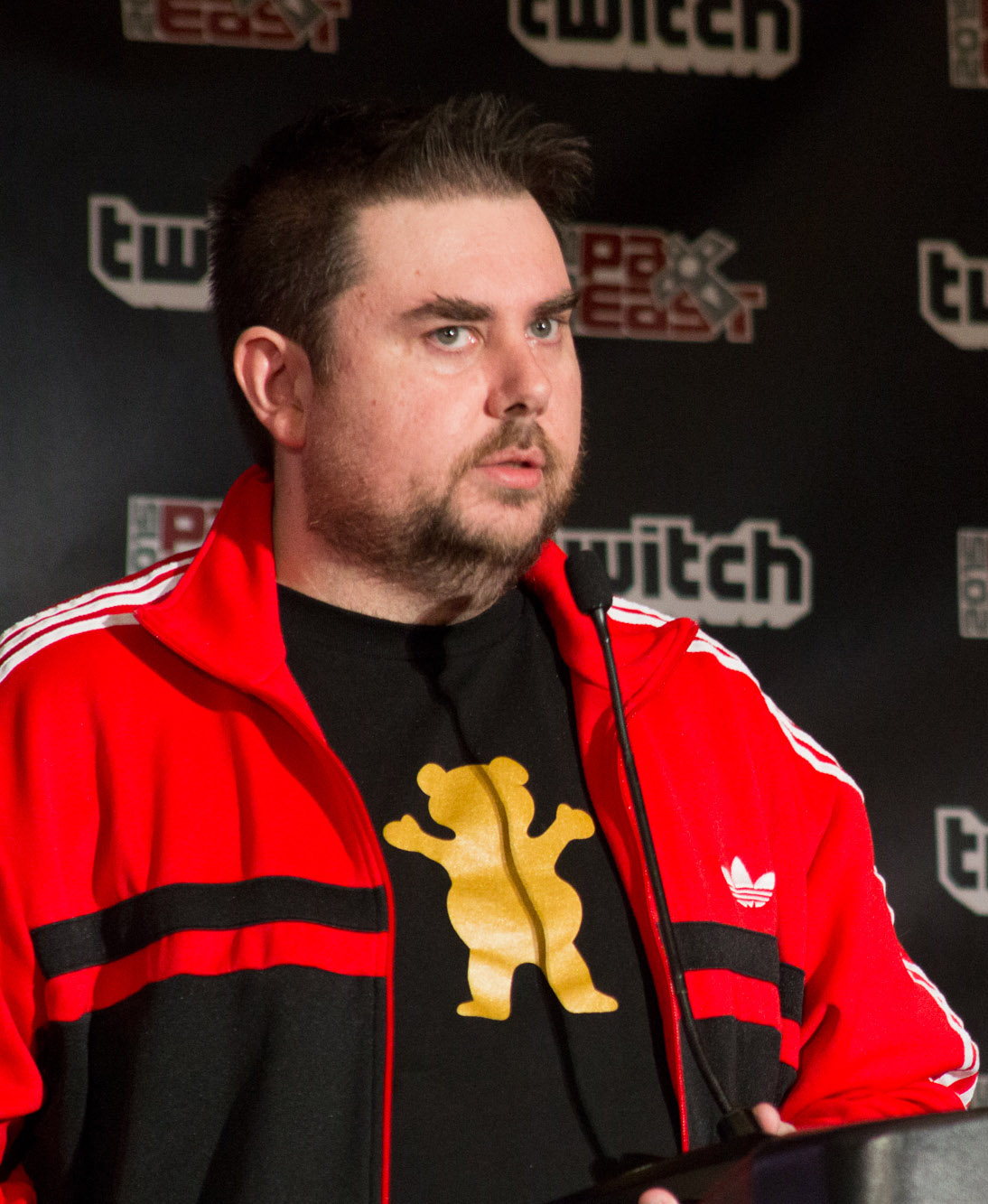 Jeff Gerstmann, hosting the Giant Bomb panel at PAX East 2015.